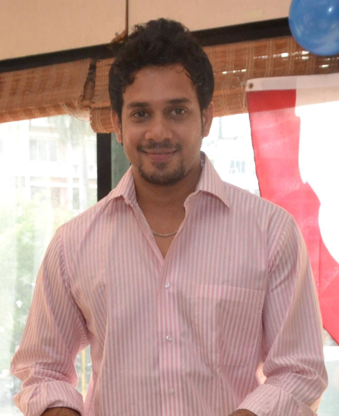 The U.S Consulate Chennai celebrated its two-year anniversary on Facebook with U.S. Consul General Jennifer McIntyre, actors Bharath Srinivasan and Jeyam Ravi, and several fans and friends. Lots of fun and cake were had by all, along with prizes for the winners of the Consulate's month-long contests. Happy Anniversary, Consulate FB page! (Photo by U.S. Consulate General, Chennai)